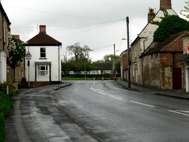 Westgate, North Cave, East Riding of Yorkshire, England.Looking towards the T Junction to North Cave Church, left, and South Cave, right.